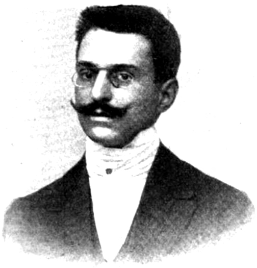 Patrice Contamine de La Tour, French journalist